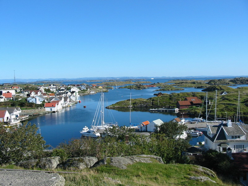 Kvitsøy kommune